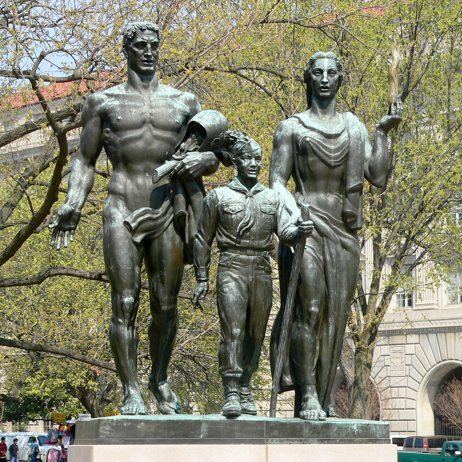 The Boy Scout Memorial statue in President's Park was unveiled in 1964 to commemorate the site of the first Boy Scout Jamboree, which was held in 1937. Photo taken with a Panasonic Lumix DMC-FZ50 in Washington, D.C., USA.